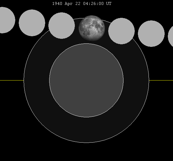 Lunar eclipse chart of moon's path through the earth's shadow. thumb